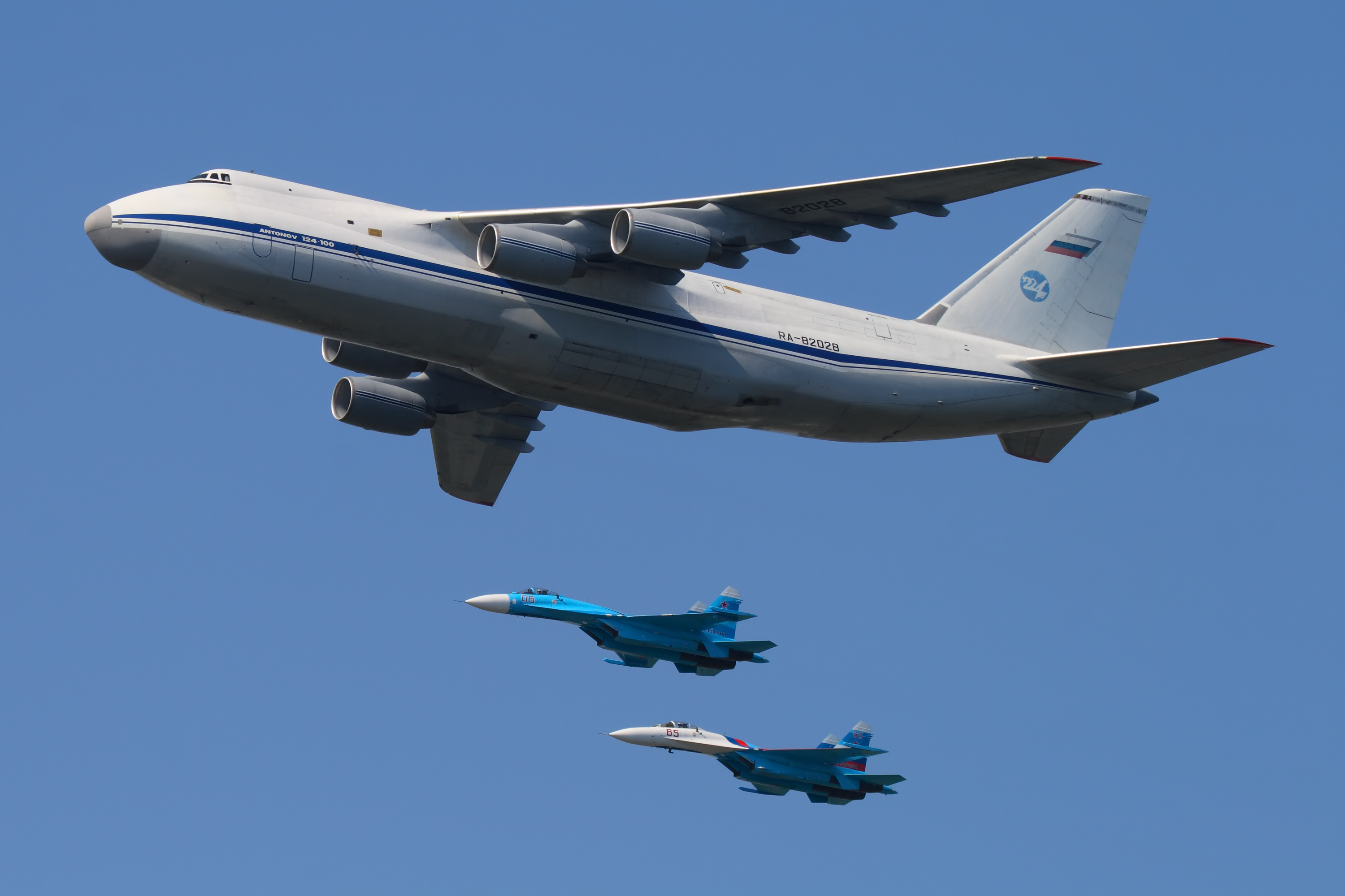 An Antonov An-124-100 (RA-82028) of 224th Flight Unit inflight with 2 Sukhoi Su-27s of the Falcons of Russia aerobatic team, as part of the flyover contingent for the 2010 Moscow Victory Day Parade.